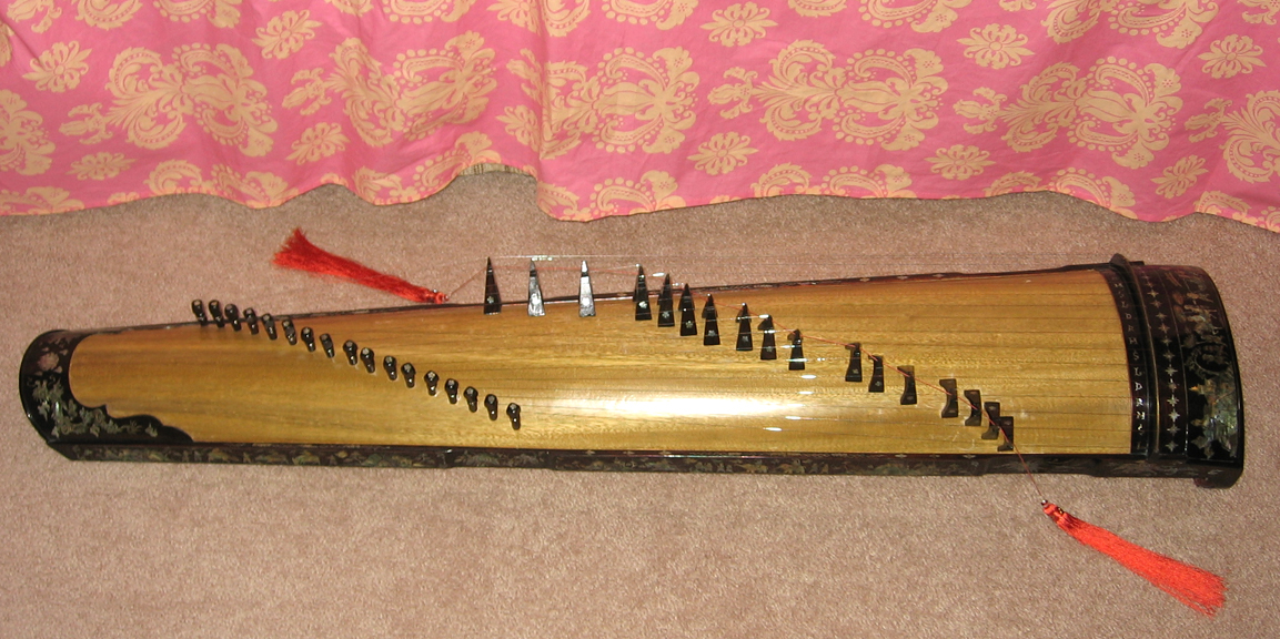 Photo by Gregory M. Genovese; dan tranh owned by the photographer; photo taken Sept. 2006